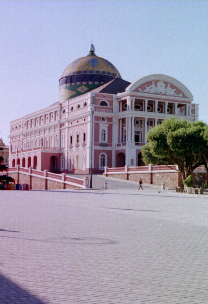 Teatro Amazonas, Manaus, Brazil.